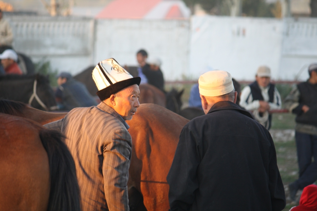 Cattle Bazaar in Karakol, Kyrgyzstan